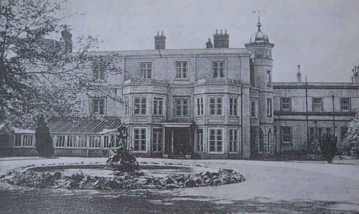 A photograph of the main entrance of the Old Manor hospital in Salisbury, UK taken in the 1950s. A statue formerly at Bemerton Lodge is visible in mid picture.